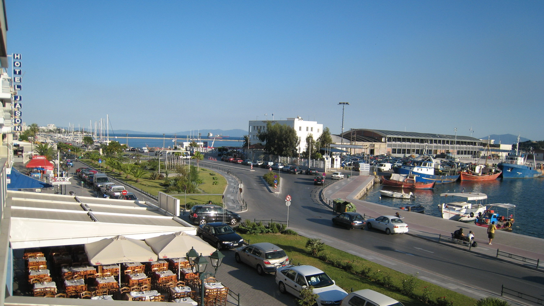 Volos waterfront area. Picture taken by (WT-shared) Handrian. Image copyright 2005 by (WT-shared) Handrian, dual-licensed under the CC-SA 1.0 (or later) and the GFDL. Taken by (WT-shared) Handrian.